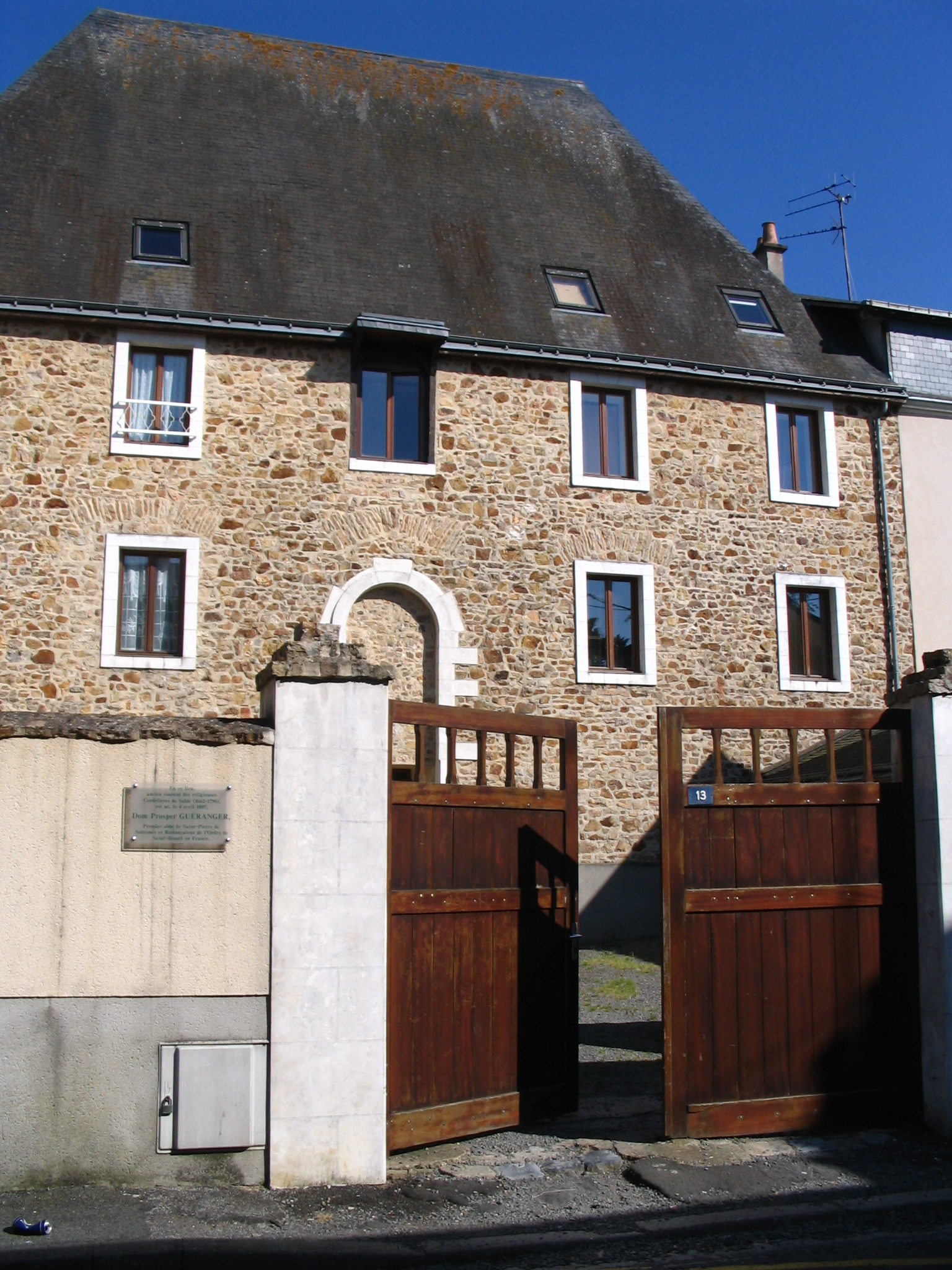 The birthplace of Prosper Guéranger, in Sablé-sur-Sarthe, Sarthe, France.